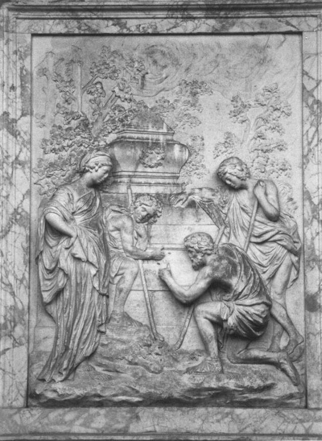 Photograph of image at Shugorough hall copy of Poussin's Arcadia Shepherds